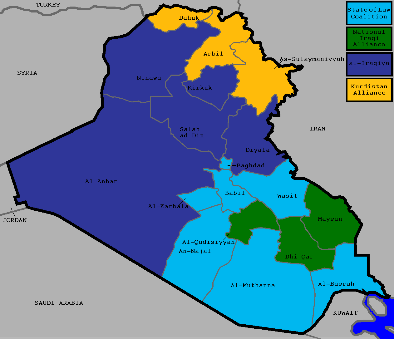 Map of preliminary results of the Iraqi Elections 2010